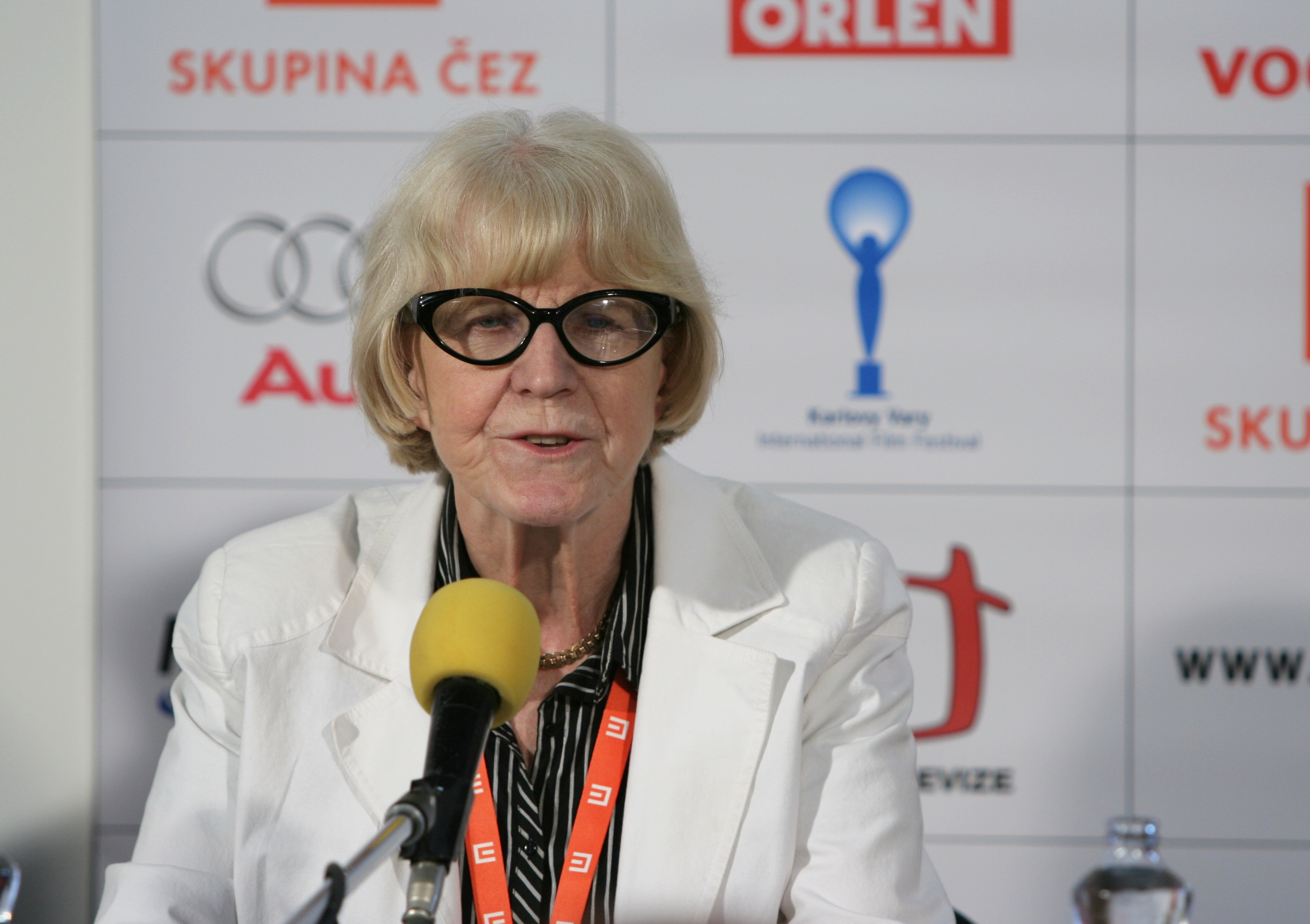 Eva Zaoralová, program director of Karlovy Vary International Film Festival